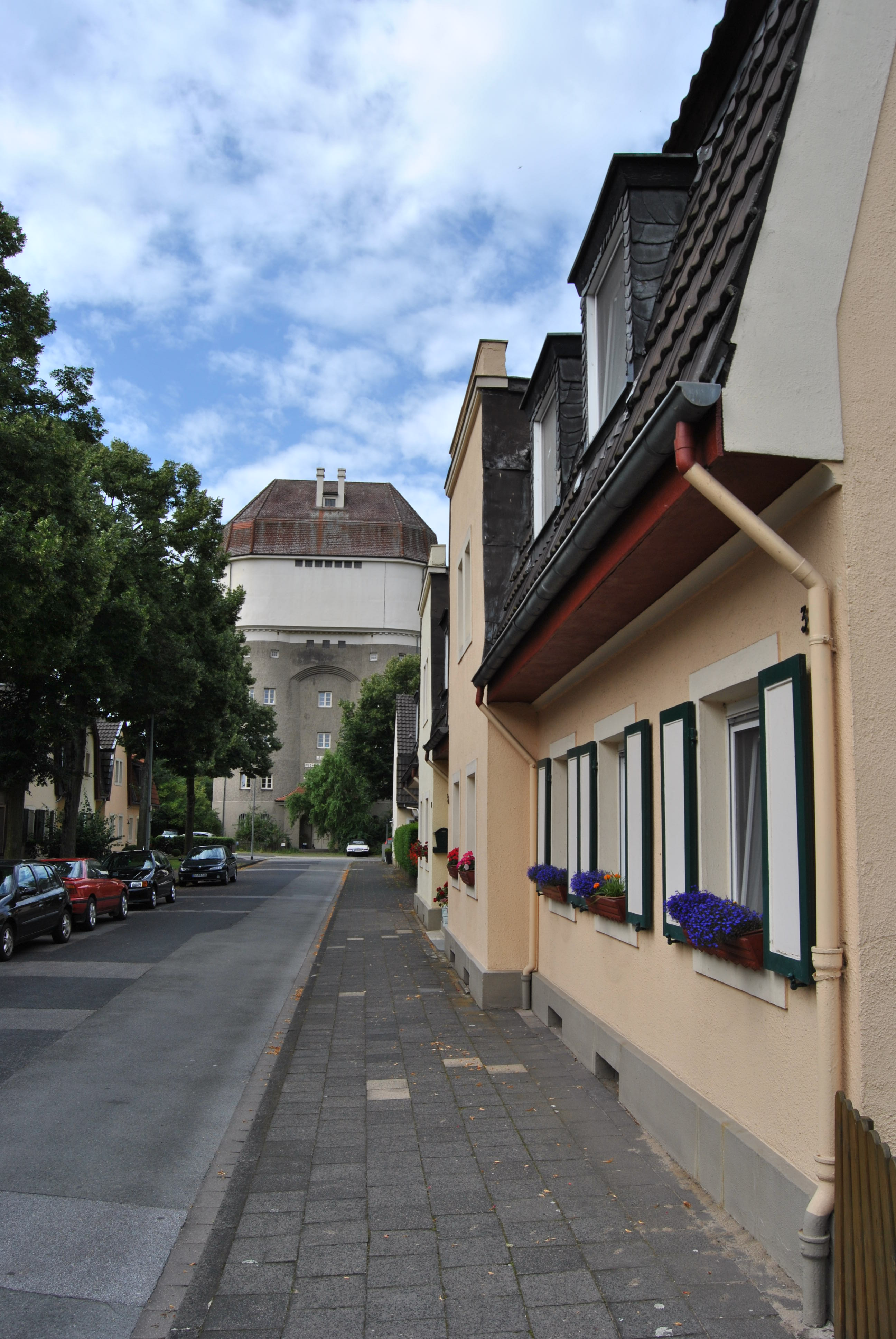 This photograph was taken with a Nikon D3000 This image shows a heritage building in Germany, located in the North Rhine-Westphalian city Duisburg.